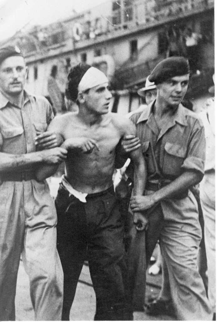 The Palmach, Immigration to Israel